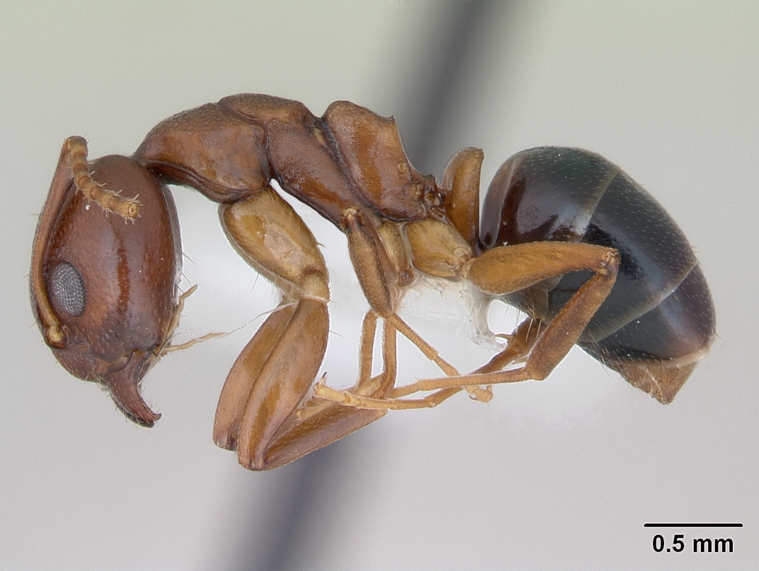 Profile view of ant Dolichoderus lutosus specimen casent0173841.